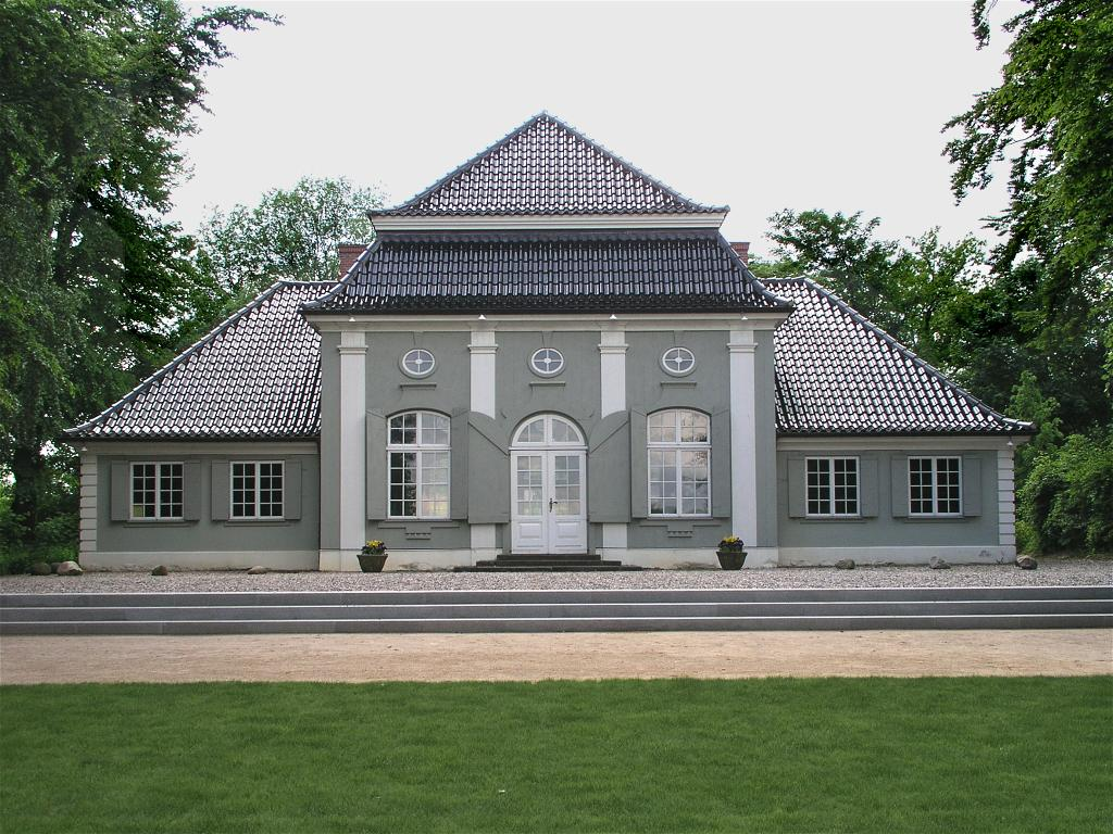 Slesvic-Holstein, Germany: hunting-lodge near the Lake Uklei, photo 2003